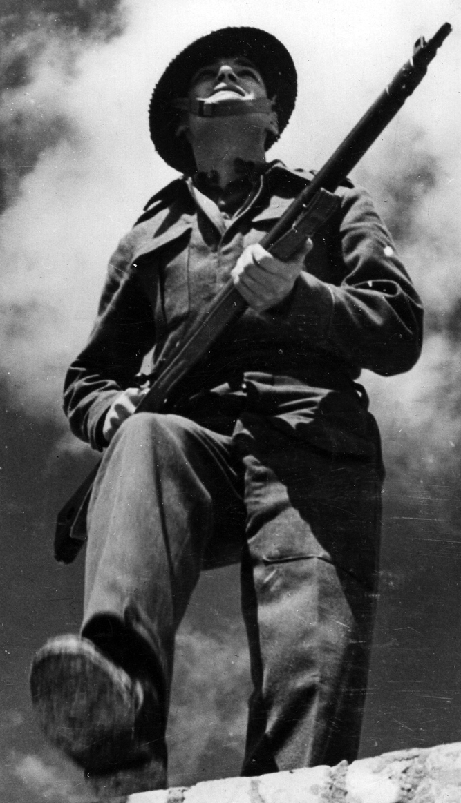 Polish Carpathian Brigade in Tobruk